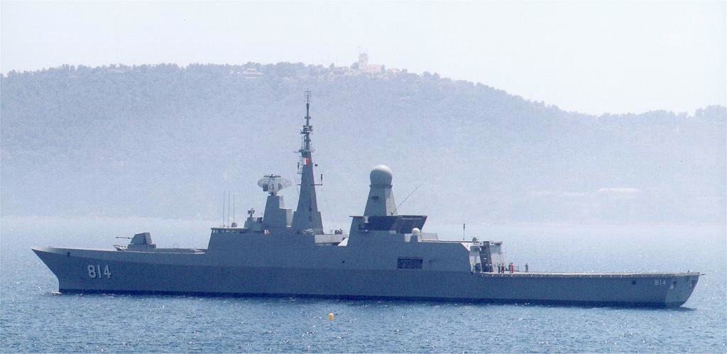 Saudia frigate Al Makkah in Toulon harbor, France.